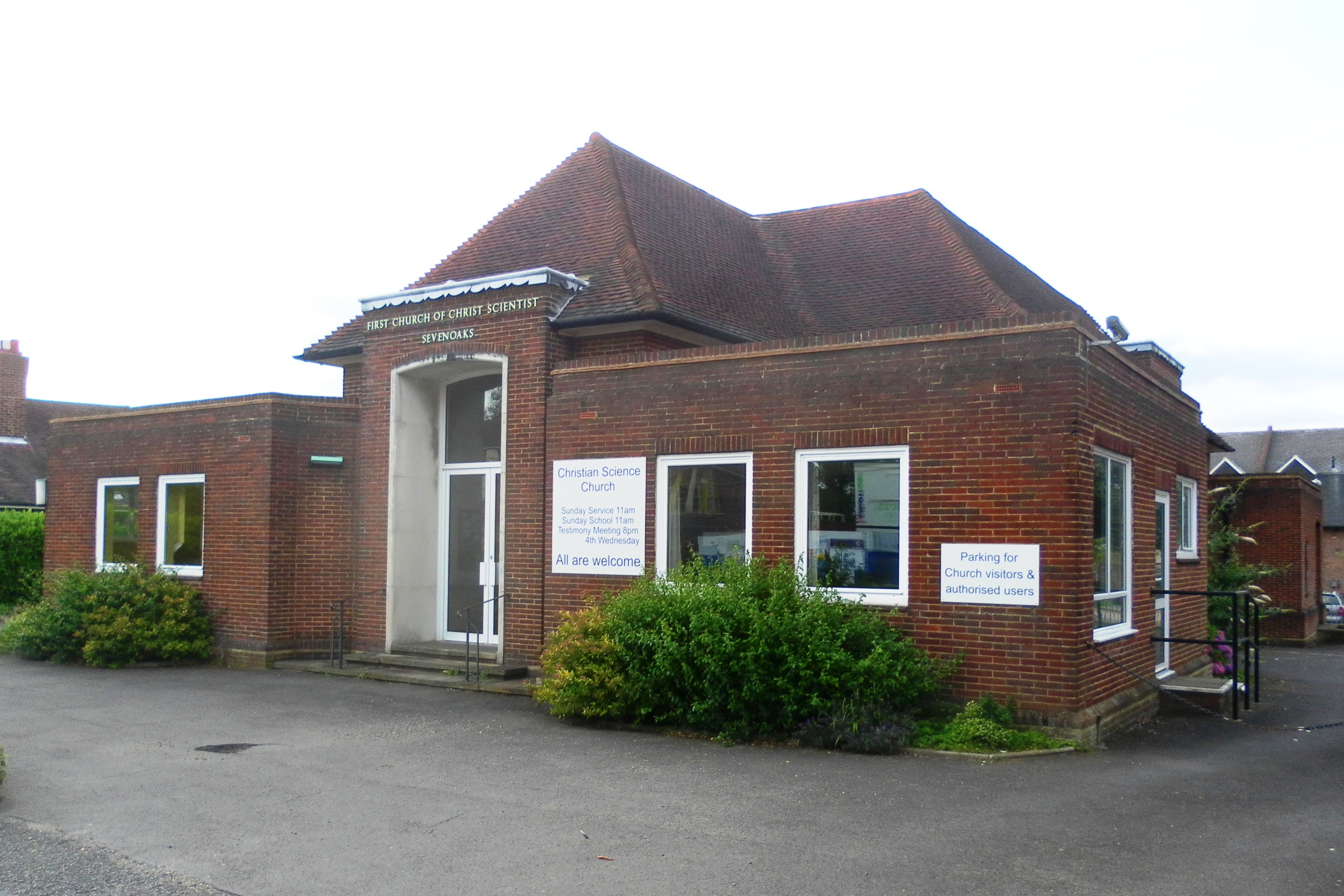 First Church of Christ, Scientist, South Park, Sevenoaks, Sevenoaks District, Kent. Update: closed and demolished by 2014.